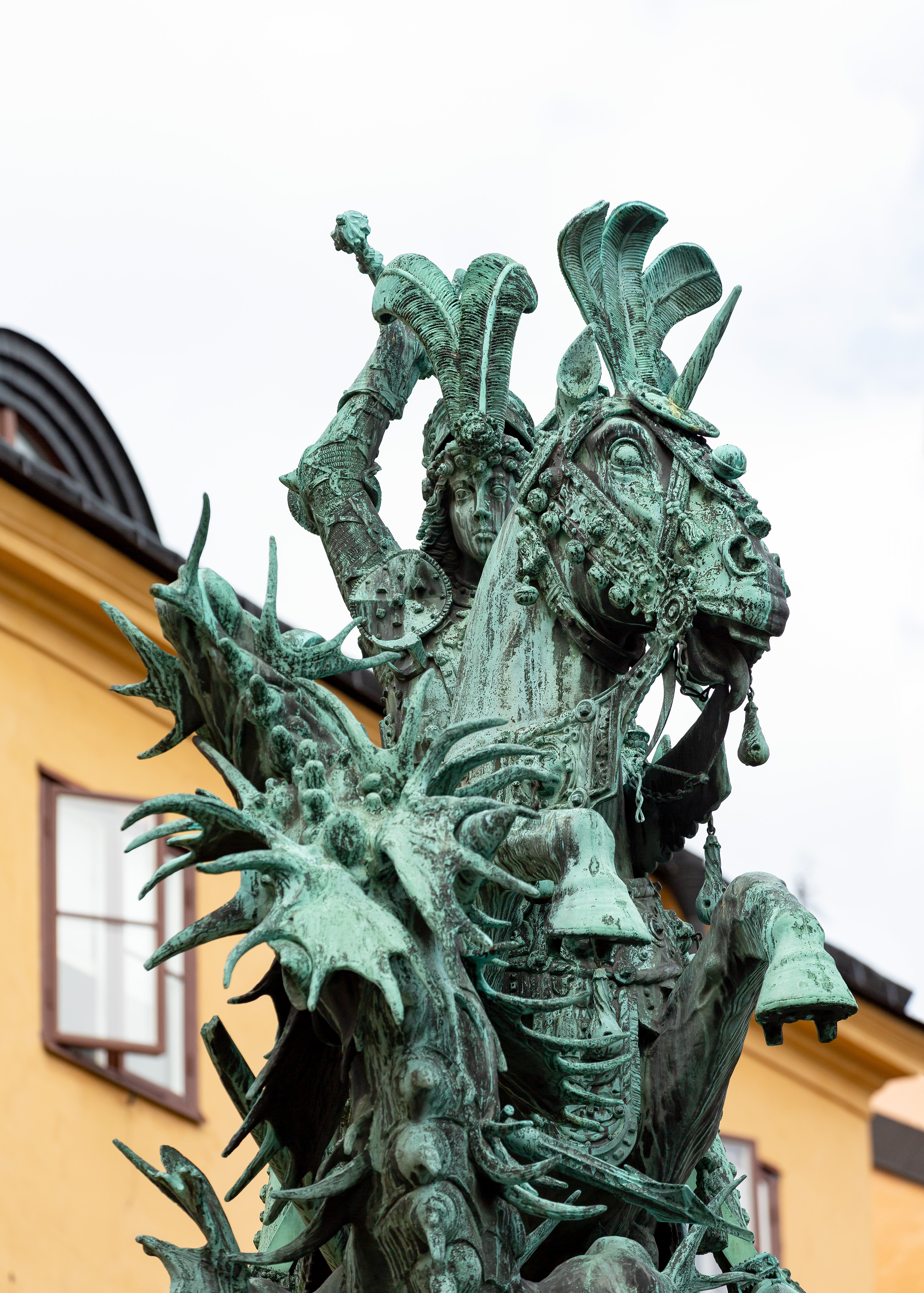 Bronze copy of Sankt Göran och draken at Köpmantorget in Gamla stan, Stockholm, Sweden.